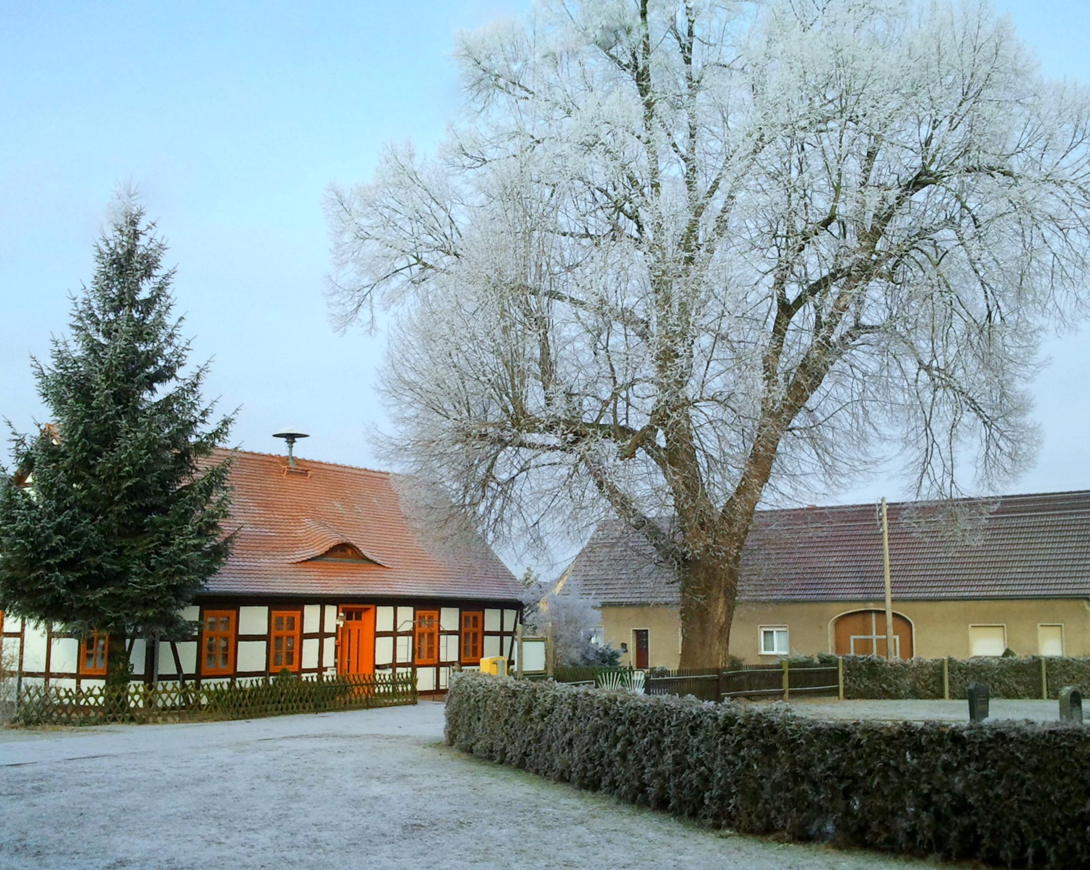 our nice half-timber-house in the village Jeßnigk in the dead of winter februrary 2012